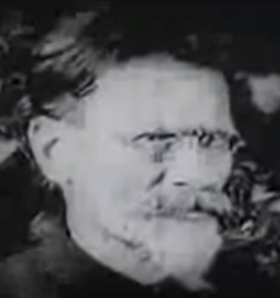 Mikhail Kalinin at Lenin's funeral.